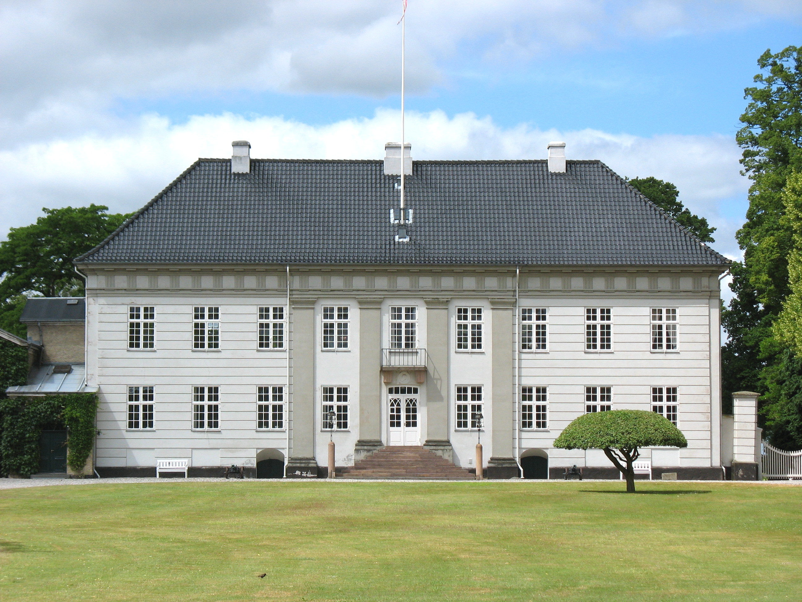 The estate "Corselitze" located on the Danish island Falster.